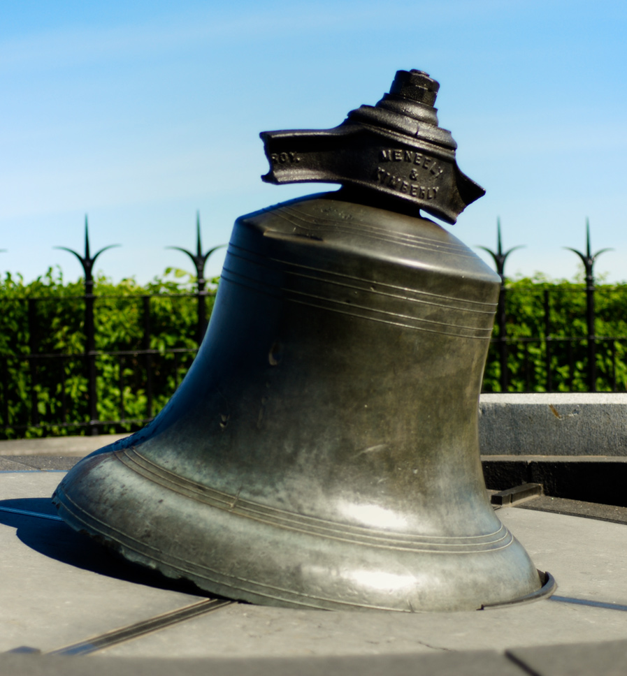 Victoria Tower Bell on Parliament Hill, Ottawa, Canada.